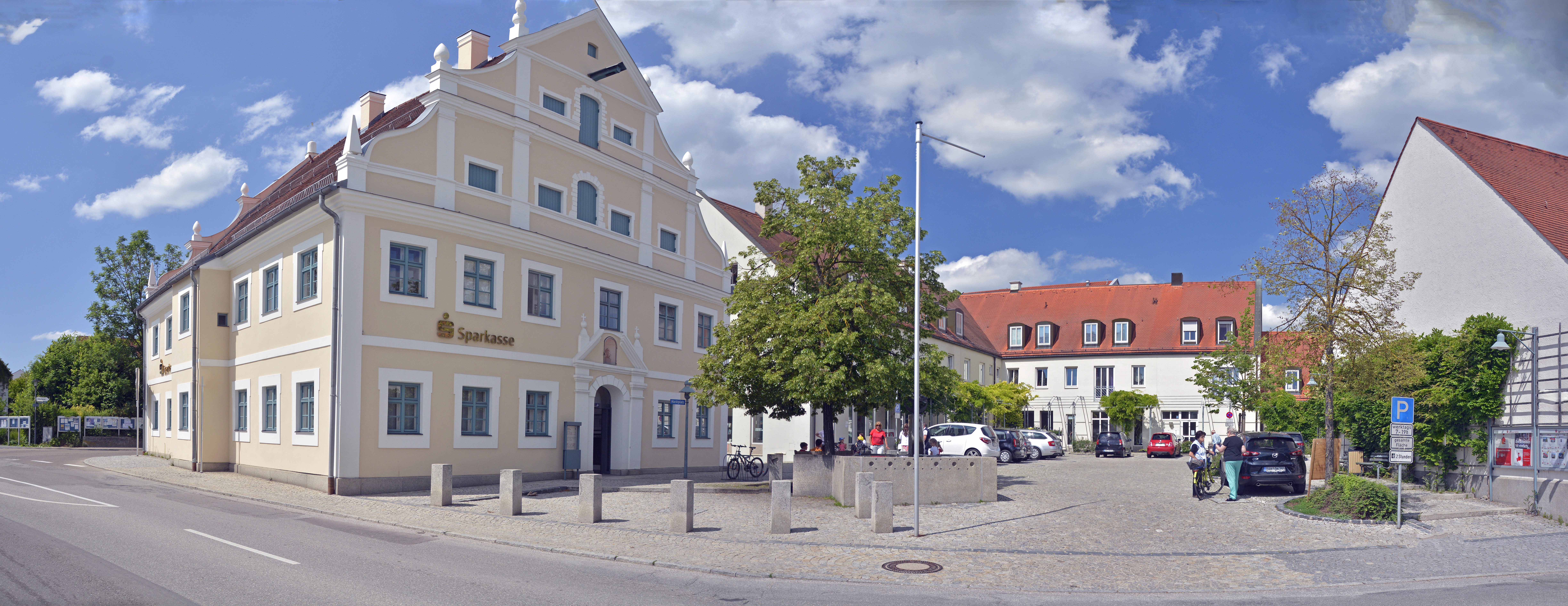 Petershausen (Upper Bavaria) - Market Square - Panorama